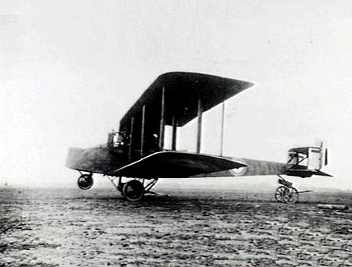 A German Friedrichshafen G.IIIa bomber in Allied service.